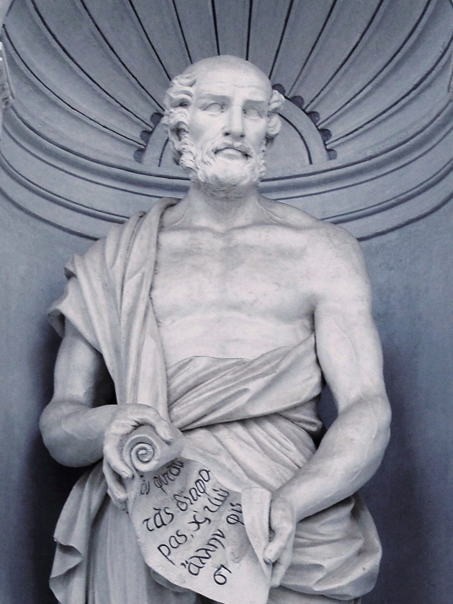 Teofrasto Ancient greek philosopher and botanist. Orto botanico di Palermo